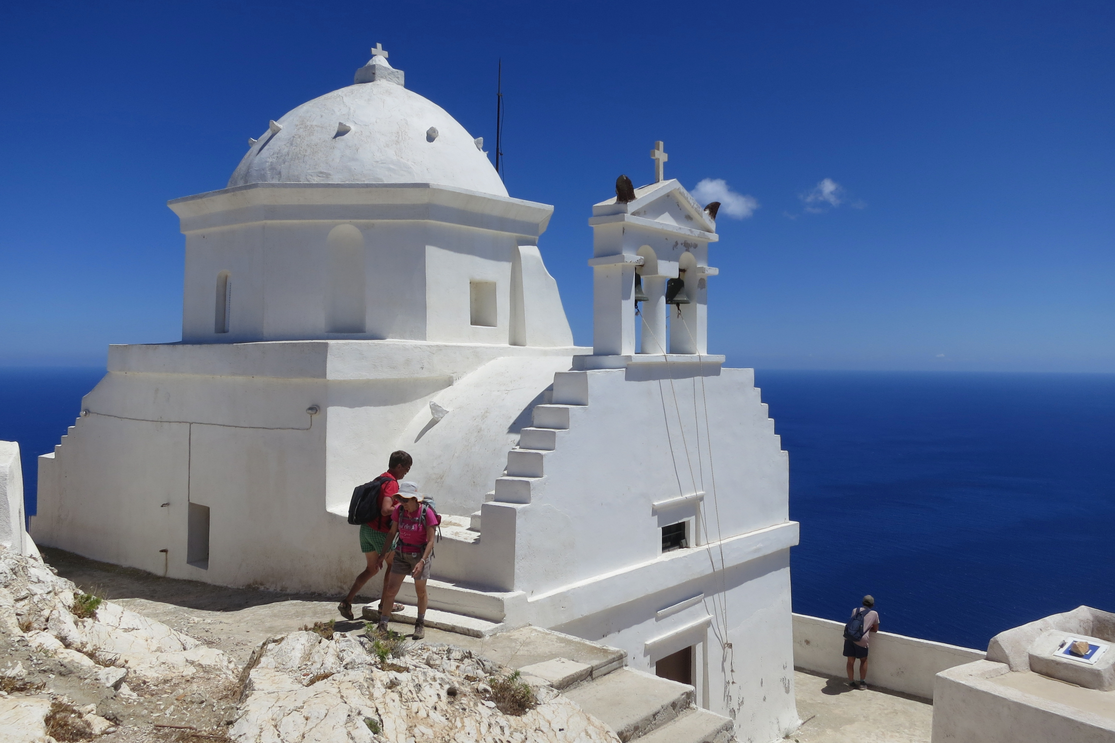 Monastery Church of the Nativity of the Virgin Mary (Nativity of Theotokos) on the mountain Kalamos, called Panagia Kalamiotissa. Anafi.